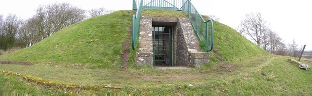 Queen Anya's Tomb, Knockmany. Located on the summit of Knockmany this is a passage grave formed of 12 massive upright slabs which constitute air entrance passage and a wedge shaped chamber. Three stones are engraved with designs which show it to be an example of what is known as Boyne Culture. 150185